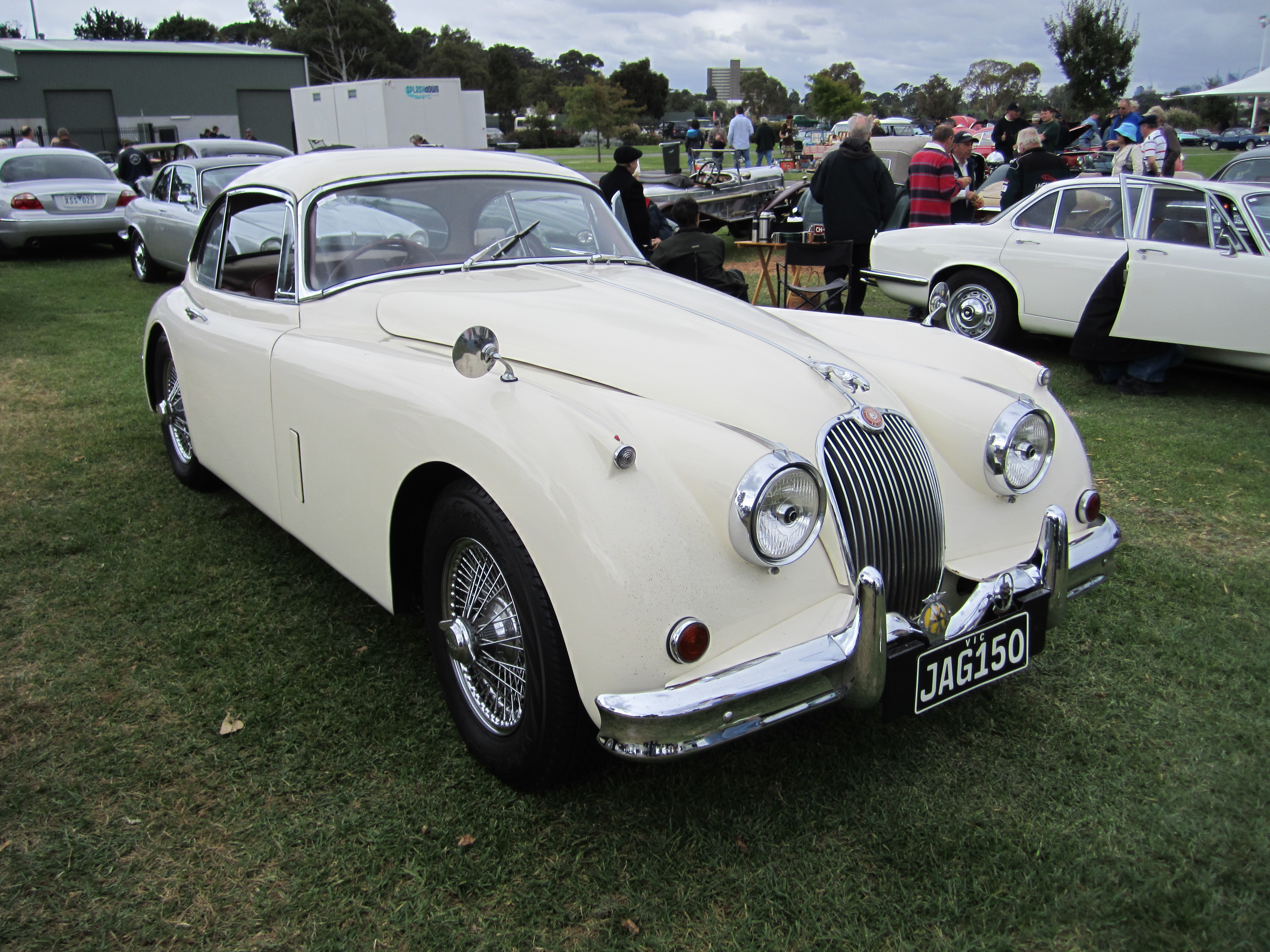 Built from 1957-61 Replaced the XK140, next model; the E-type. Now 1 piece windscreen, longer, wider bonnet. Available in Roadster or Coupe. Engine; 3400cc 6 cyl